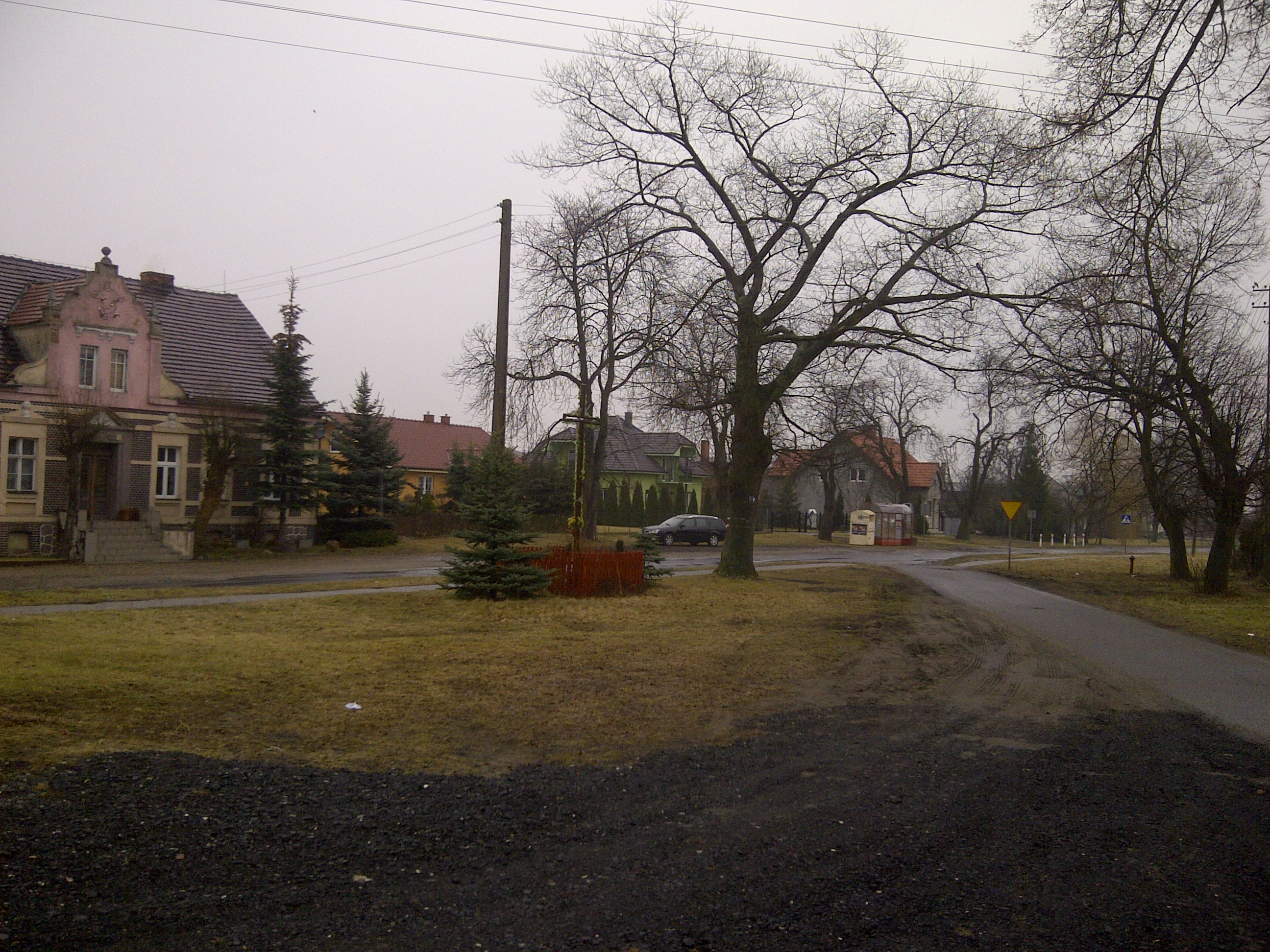 The central square in Drzensko